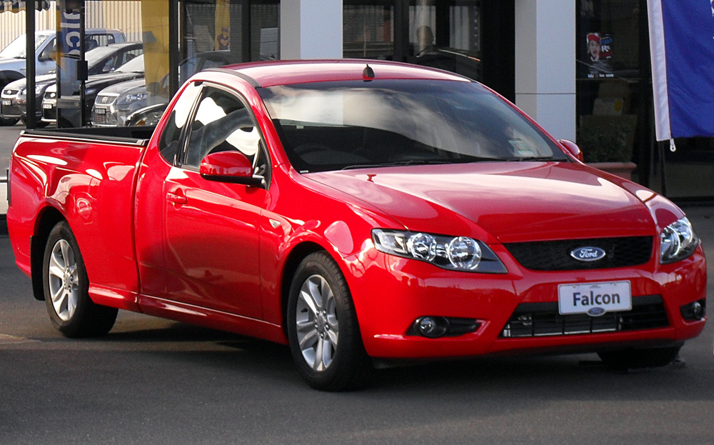 2008 Ford Falcon (FG) R6 utility. Photographed in Australia.